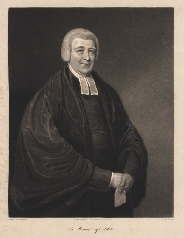 Portrait of Joseph Goodall (1760–1840), Provost of Eton.